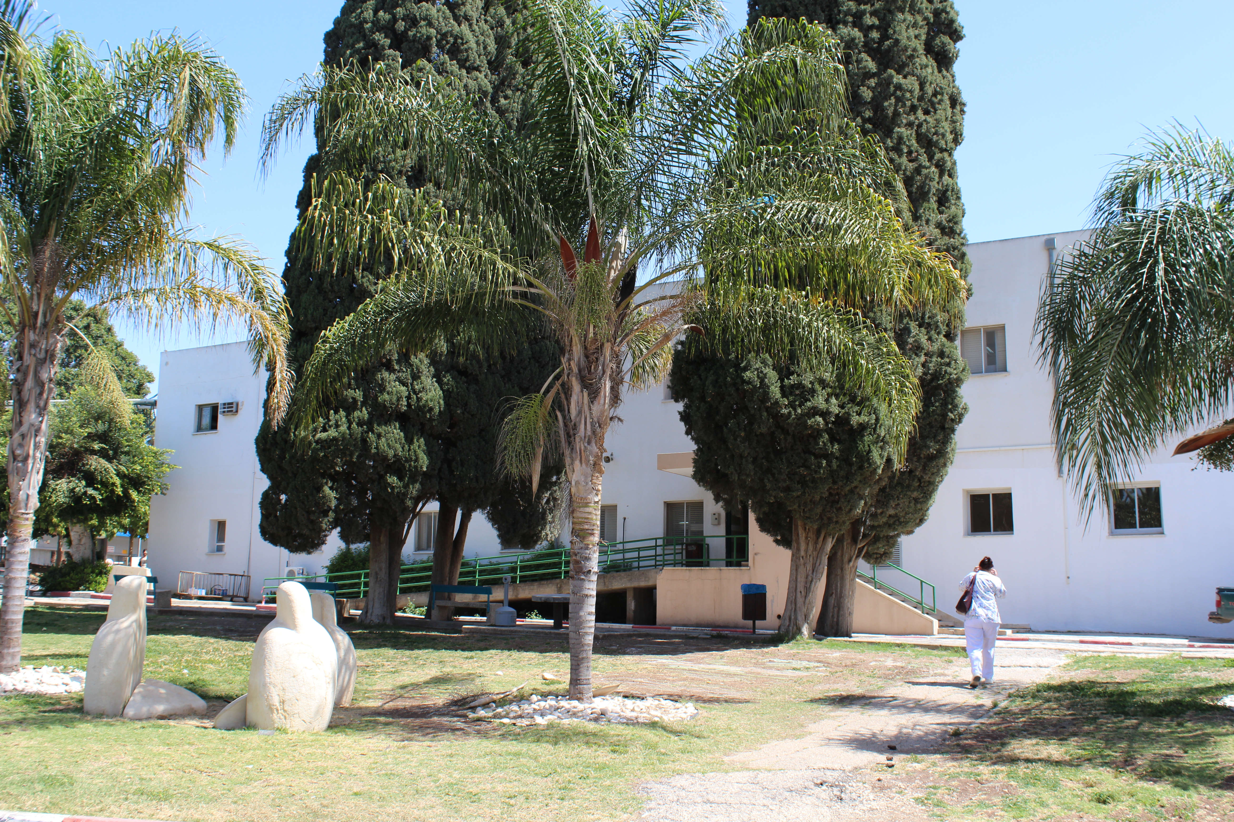 HaEmek Medical Center, Afula, Israel This image was taken as part of the Elef Millim project trip to Afula Ilit, in the town of Afula in the Jezreel Valley, which was held on Friday, 29th March 2013. To view all images uploaded as part of the Elef Millim Project